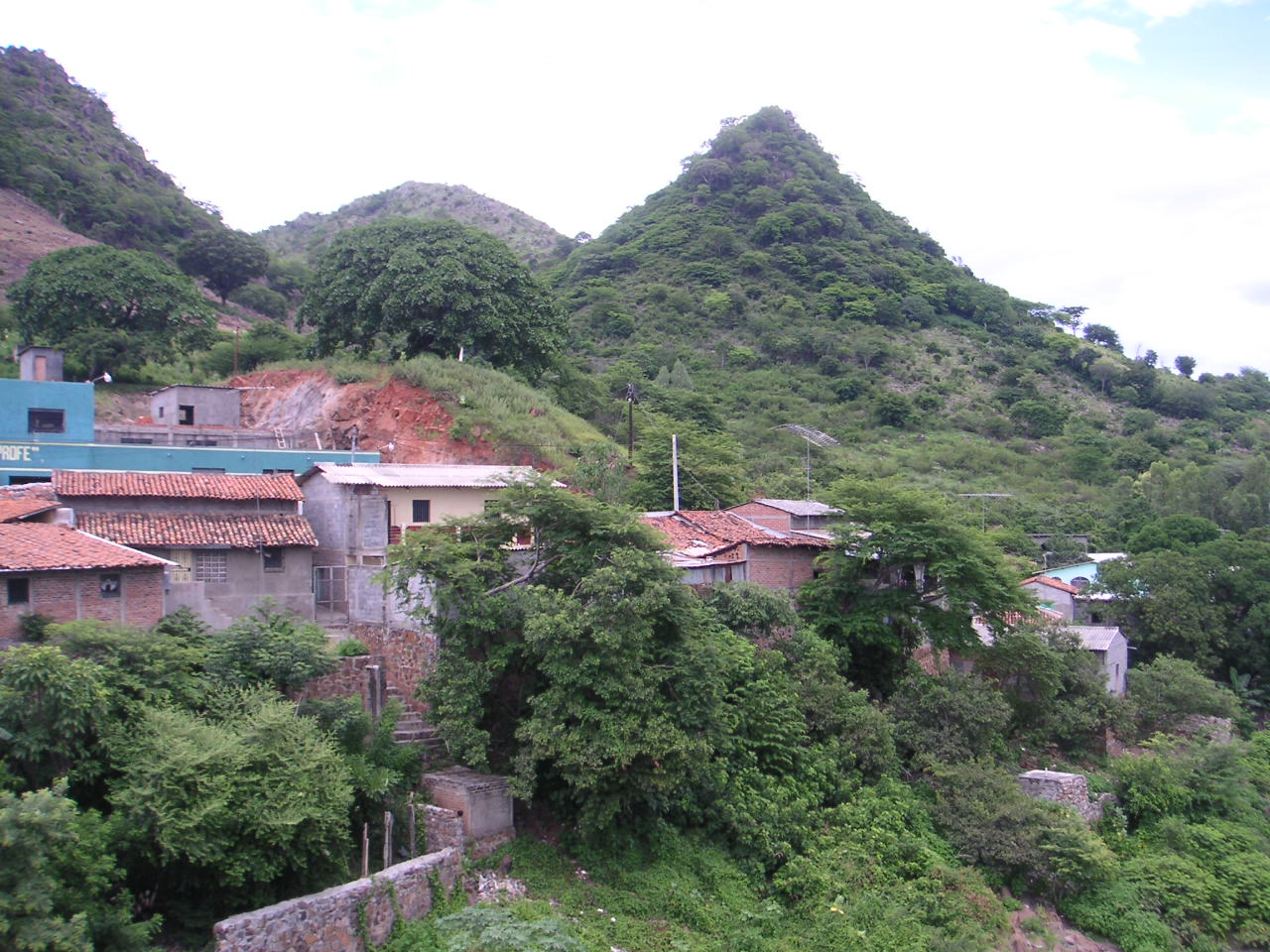 Border of El Salvador and Honduras. Photo: Soman